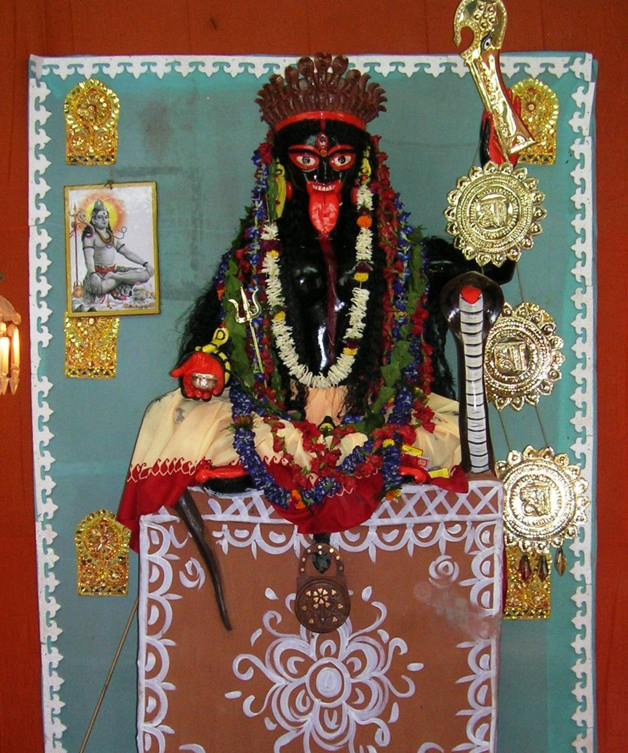 Akali, Goddess of Femine, at a South Kolkata Kali Puja Pandal